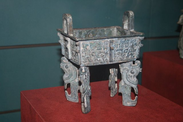 A bronze fangding vessel from the Chinese Western Zhou Dynasty